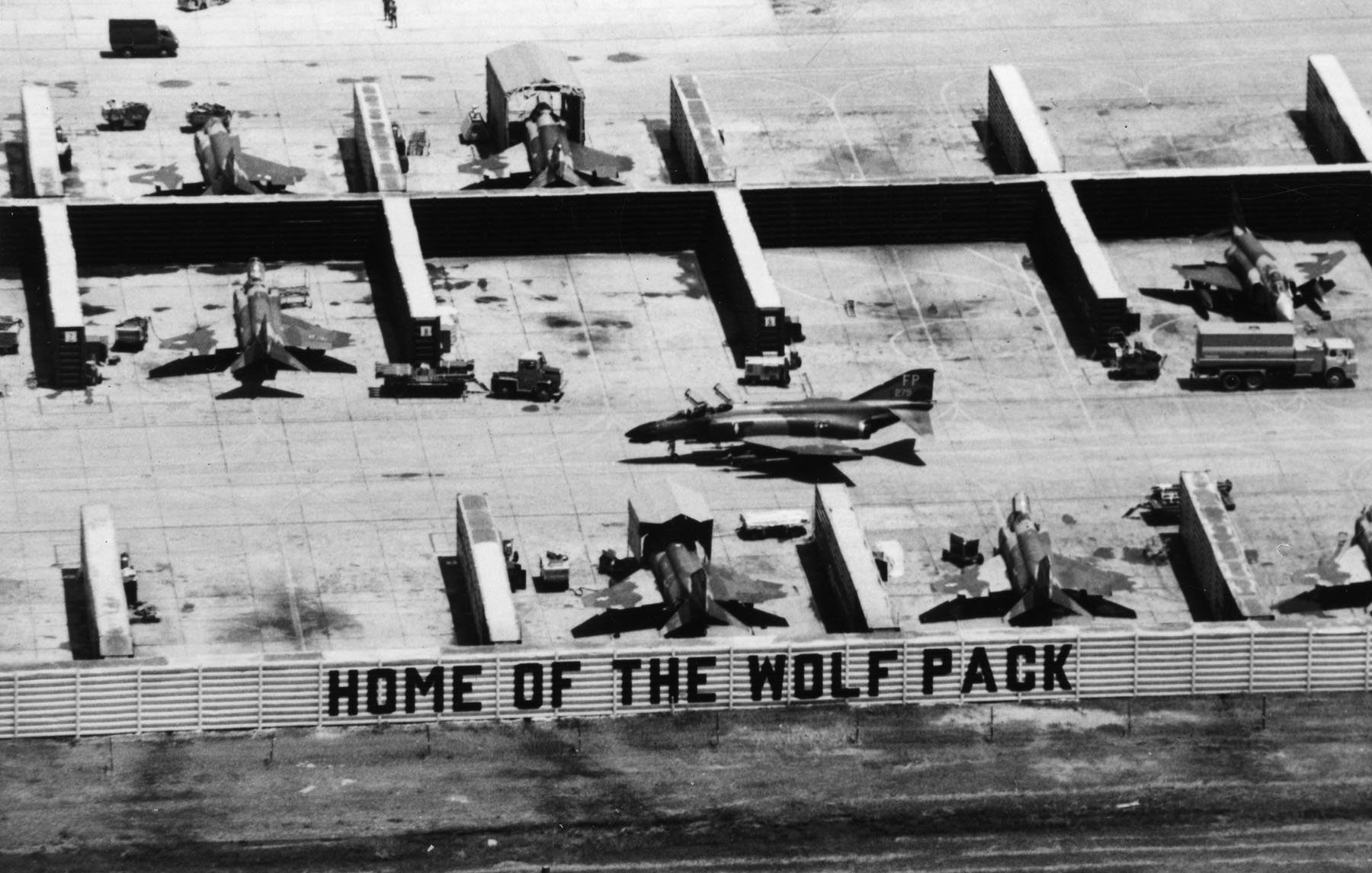 U.S. Air Force McDonnell F-4D Phantom II fighters of the 8th Tactical Fighter Wing in their revetments Ubon Royal Thai Air Force Base, Thailand. Note the 8th TFW's nickname -- the “Wolfpack” -- on the revetments.